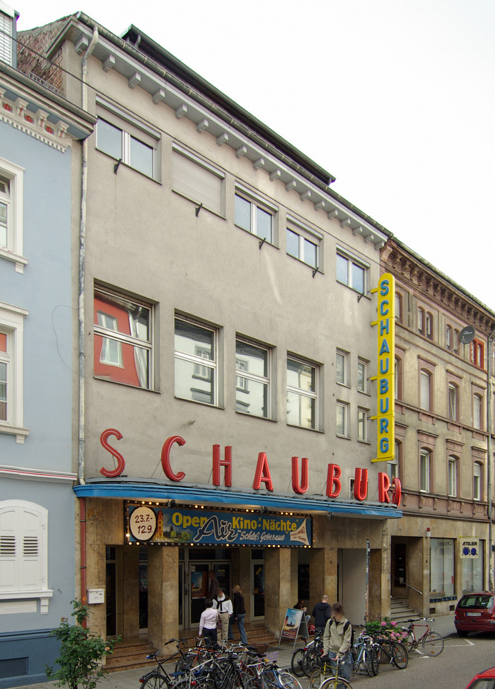 The Schauburg cinema in Karlsruhe, Germany.